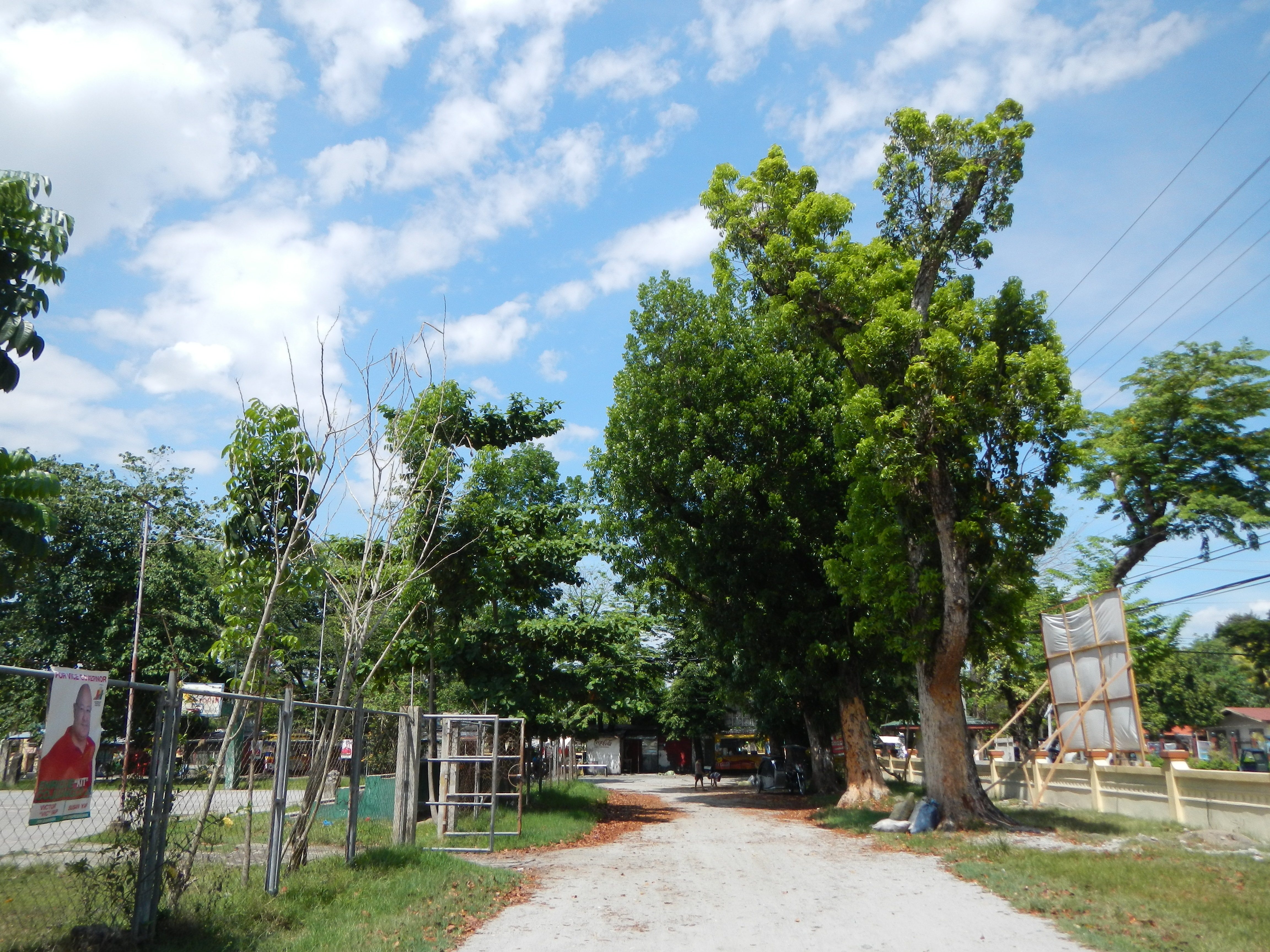 Victoria, Tarlac[1] is a second class municipality in the province of Tarlac, Philippines. According to the 2010 census, it has a population of 59,987 people. The municipality is located in the Province of Tarlac, geographically located in the central part of Luzon. It lies between 1”42’ north latitude and 120º35’ and 120”45 east longitude. It is bounded by Tarlac City, municipalities of Pura Gerona, La Paz and to the east by the Province of Nueva Ecija. The municipality has a total land area of 11,150 hectares, of which a large portion is used for agricultural activities.New Website [2]Land Area: 111.51 km² ZIP Code: 2313 Coordinates: 15°34'34"N 120°41'25"E[3] This place is situated in Tarlac, Region 3, Philippines, its geographical coordinates are 15° 34' 39" North, 120° 40' 56" East and its original name (with diacritics) is Victoria.[4]PNOC-EDC to drill more wells in Victoria, Tarlac March 20, 2002 [5]VICTORIA, FIRST TO ESTABLISH TSU – CAMPUS OFF – TARLAC CITY ----- By 1850 there were already settled communities in what would later be called the town of Victoria. The biggest was in Namitinan (now in Sitio in Brgy. Canarem) which was of Ilocano settlers who decided to live close to Canarum Lake. The Kapampangan had gone as far as Baculong and Maluid. Like the Ilocano, they too were in search of land to till. There was one other community in Palacpalac. The barrio was named after a tree which sap is utilized to make houses shiny. On March 28, 1855, Superior Governor General Miguel Crespo created the town of Victoria by virtue of a Superior Decree. There was no Poblacion to speak of then. Read more:[6]